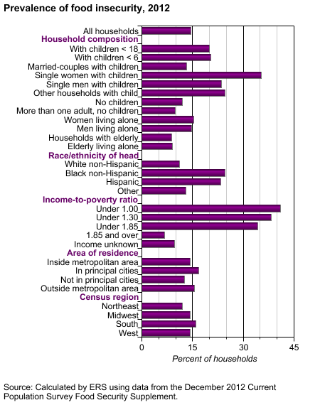 Prevalence of Food Insecurity in the US